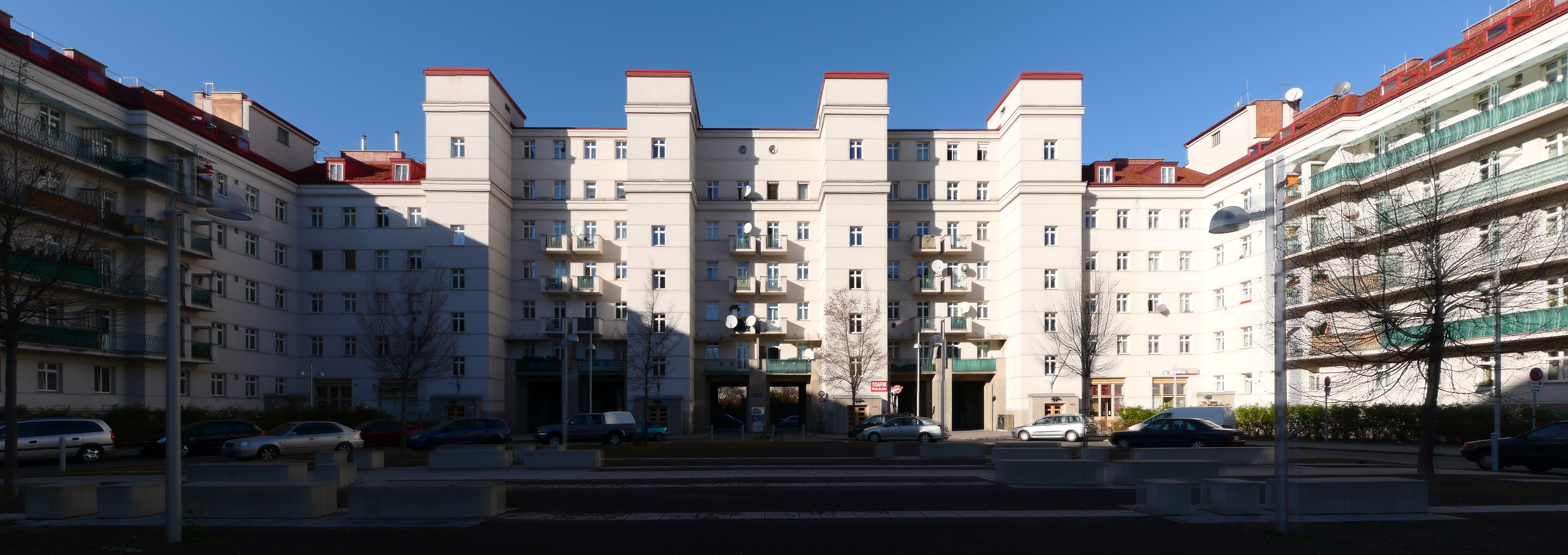 Wohnhausanlage Friedrich-Engels-Platz in Vienna Brigittenau